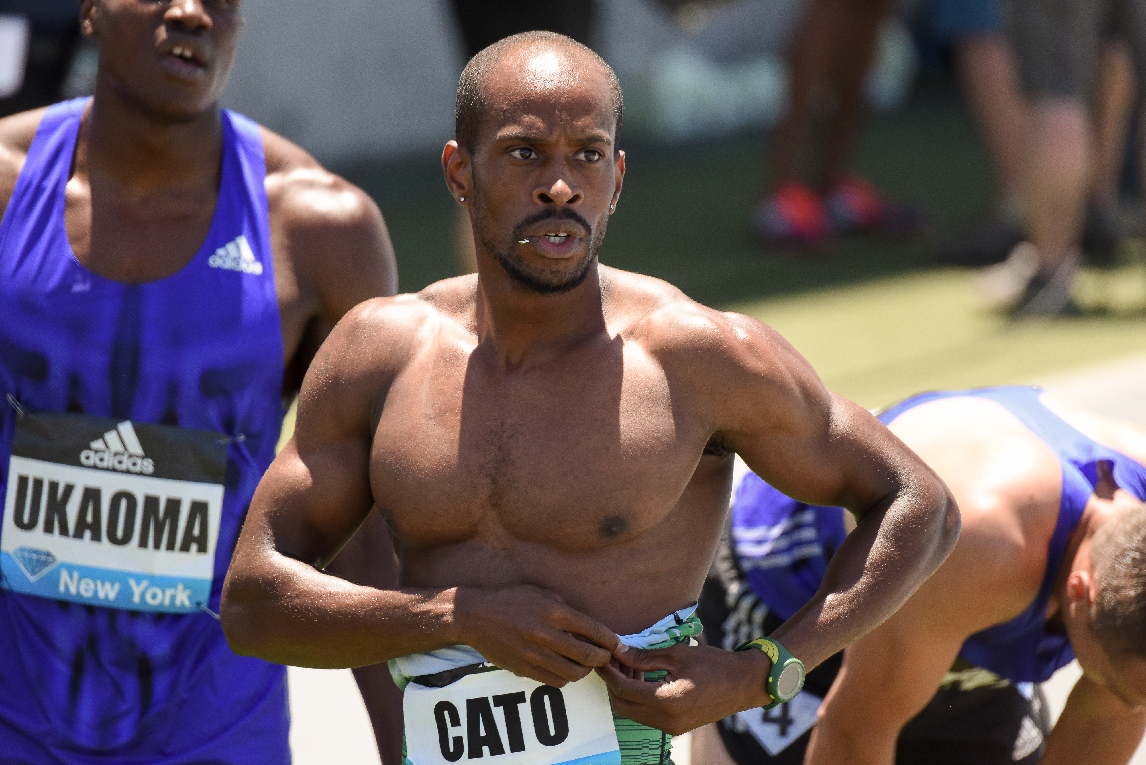 June 13, 2015 Randall's Island New York, NY That's a safety pin in his mouth, from his bib.